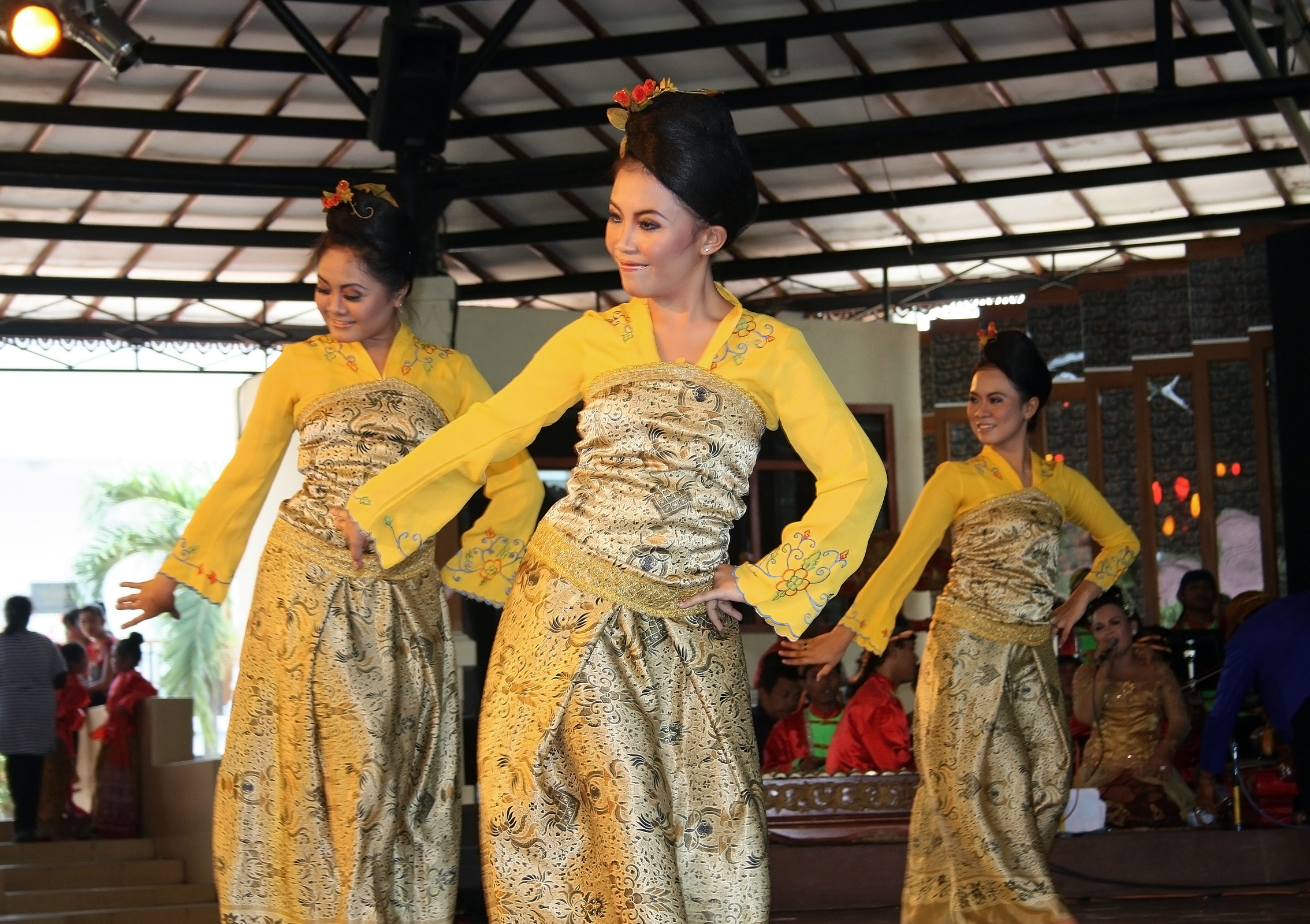 The Sundanese Jaipongan Mojang Priangan dance performance in West Java Pavilion, Taman Mini Indonesia Indah, Jakarta.